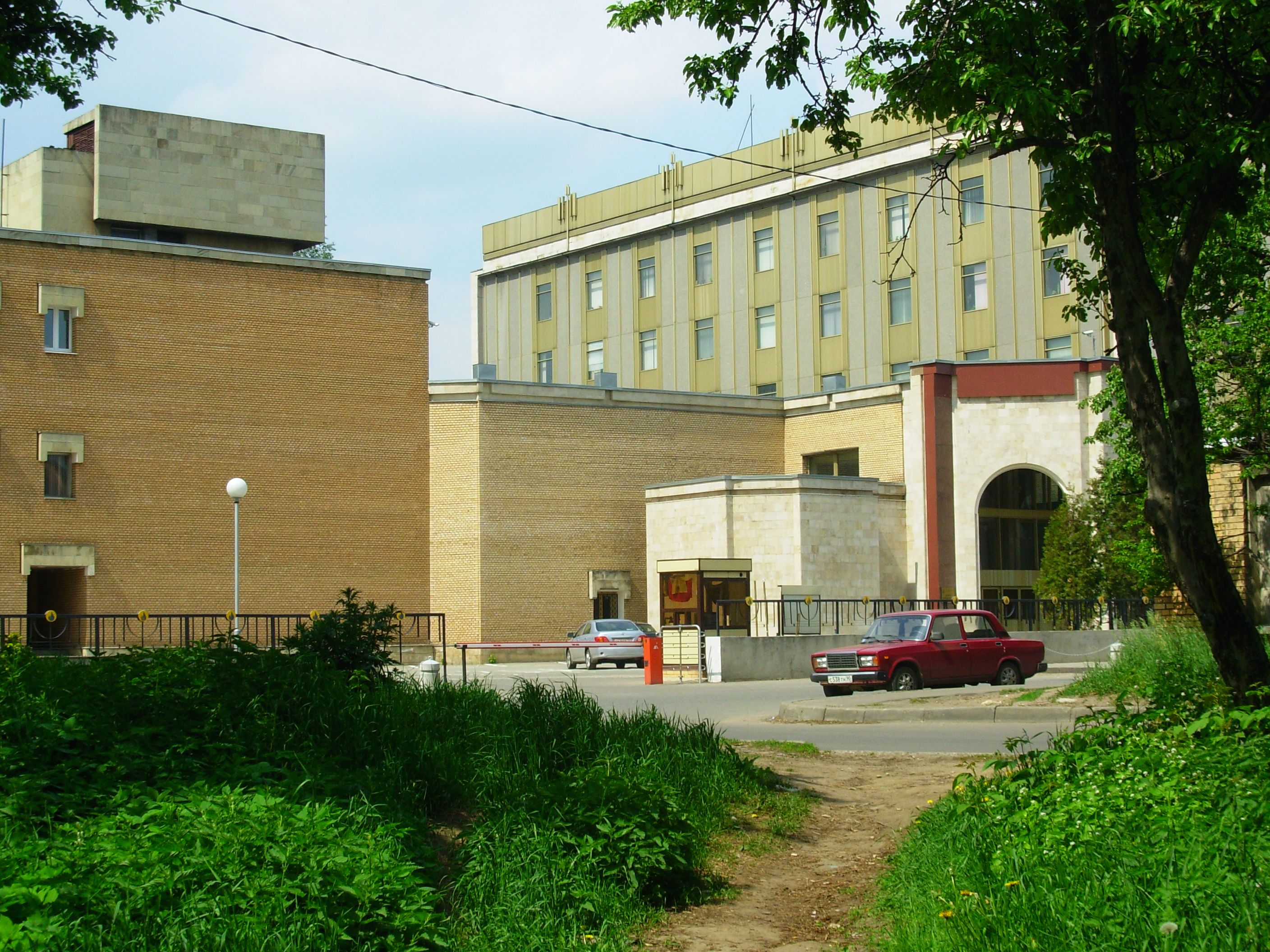 RKA Mission Control Center and its street, also showing a desire path